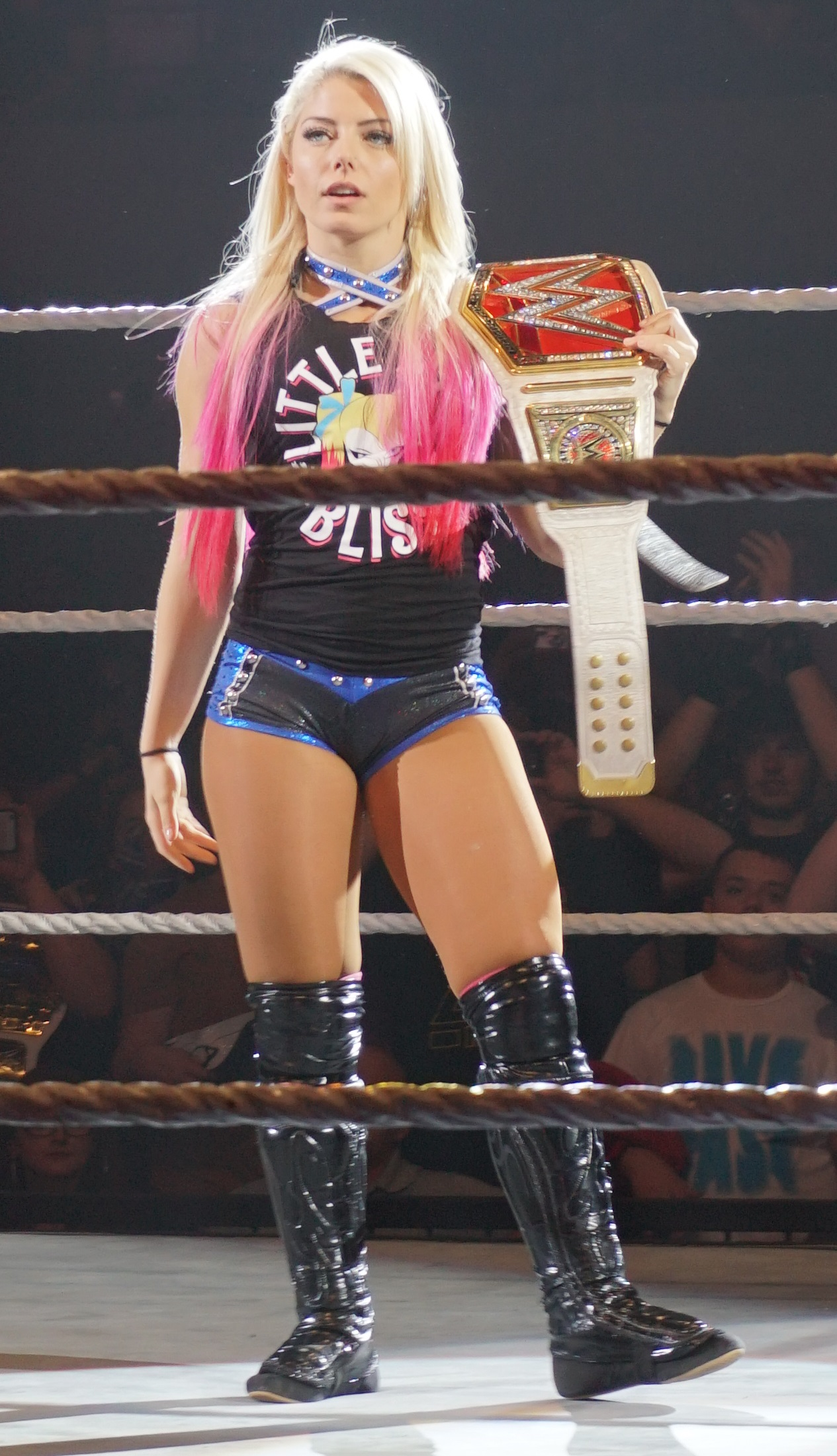 Alexa Bliss as Raw Women's Champion